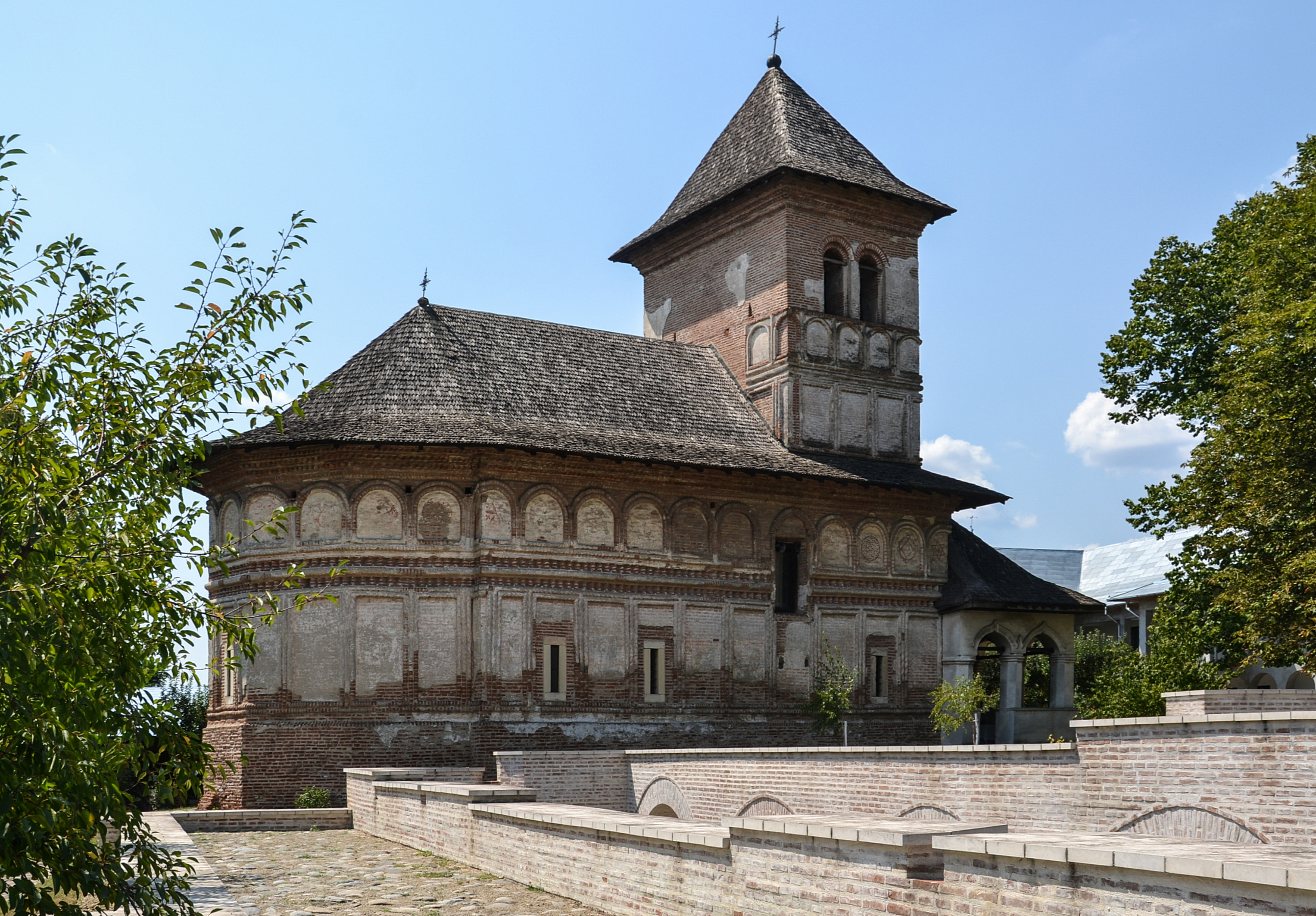 Strehaia Monastery, Romania